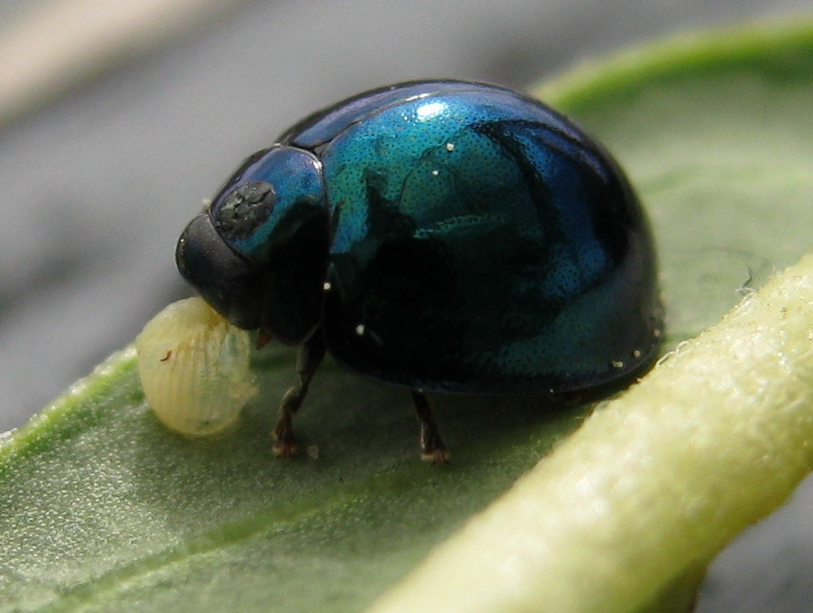 A steelblue ladybird (Halmus chalybeus) feeding on an egg of a Monarch butterfly (Danaus plexippus).